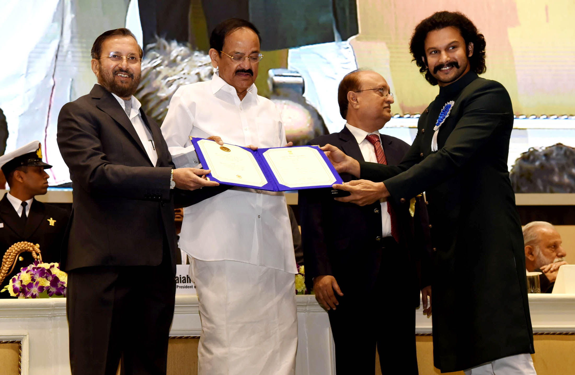 BEST FILM ON ENVIRONMENTCONSERVATION/PRESERVATION : PAANIDirector : SHRI ADDINATHKOTHARE